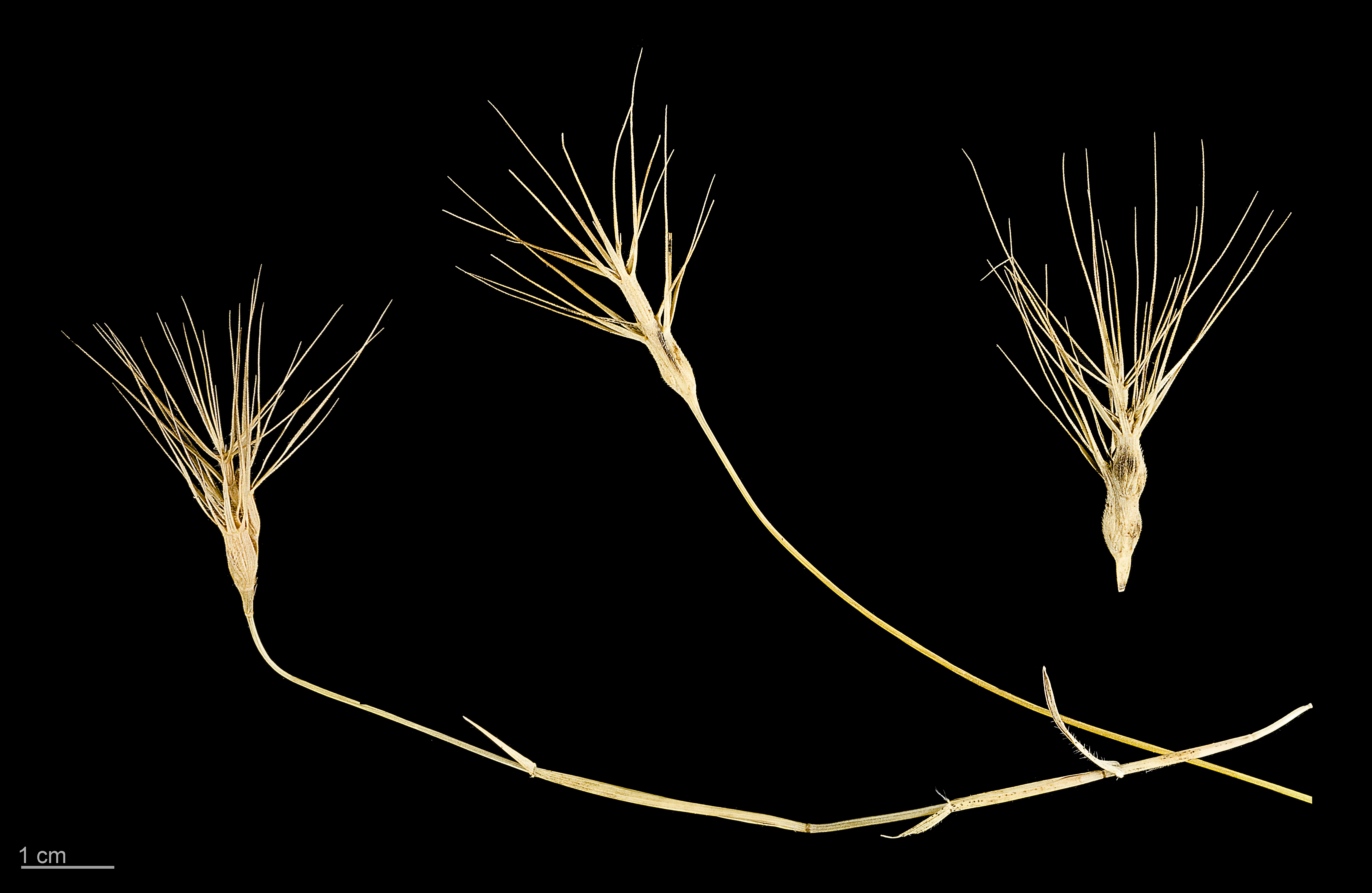 ovate goatgrass , fruits and seeds